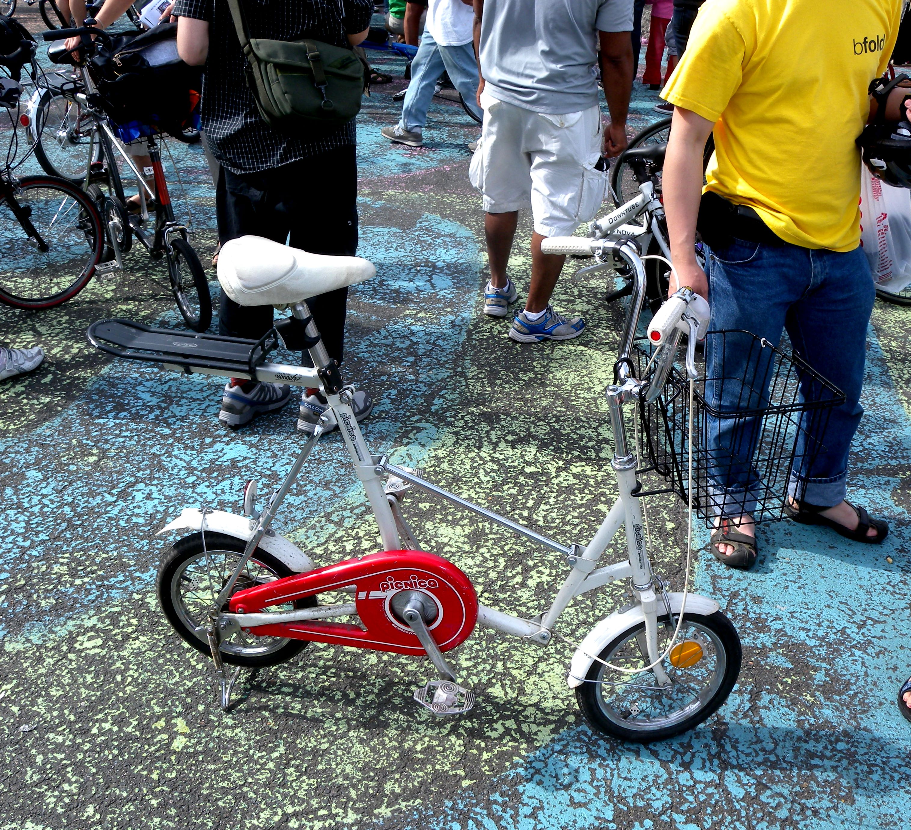 Looking northwest at a Picnica on its kickstand.